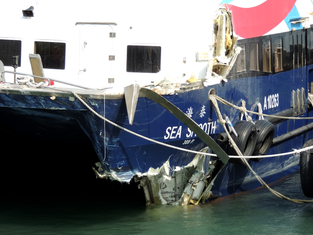 2012 Lamma Island ferry collision - Sea Smooth